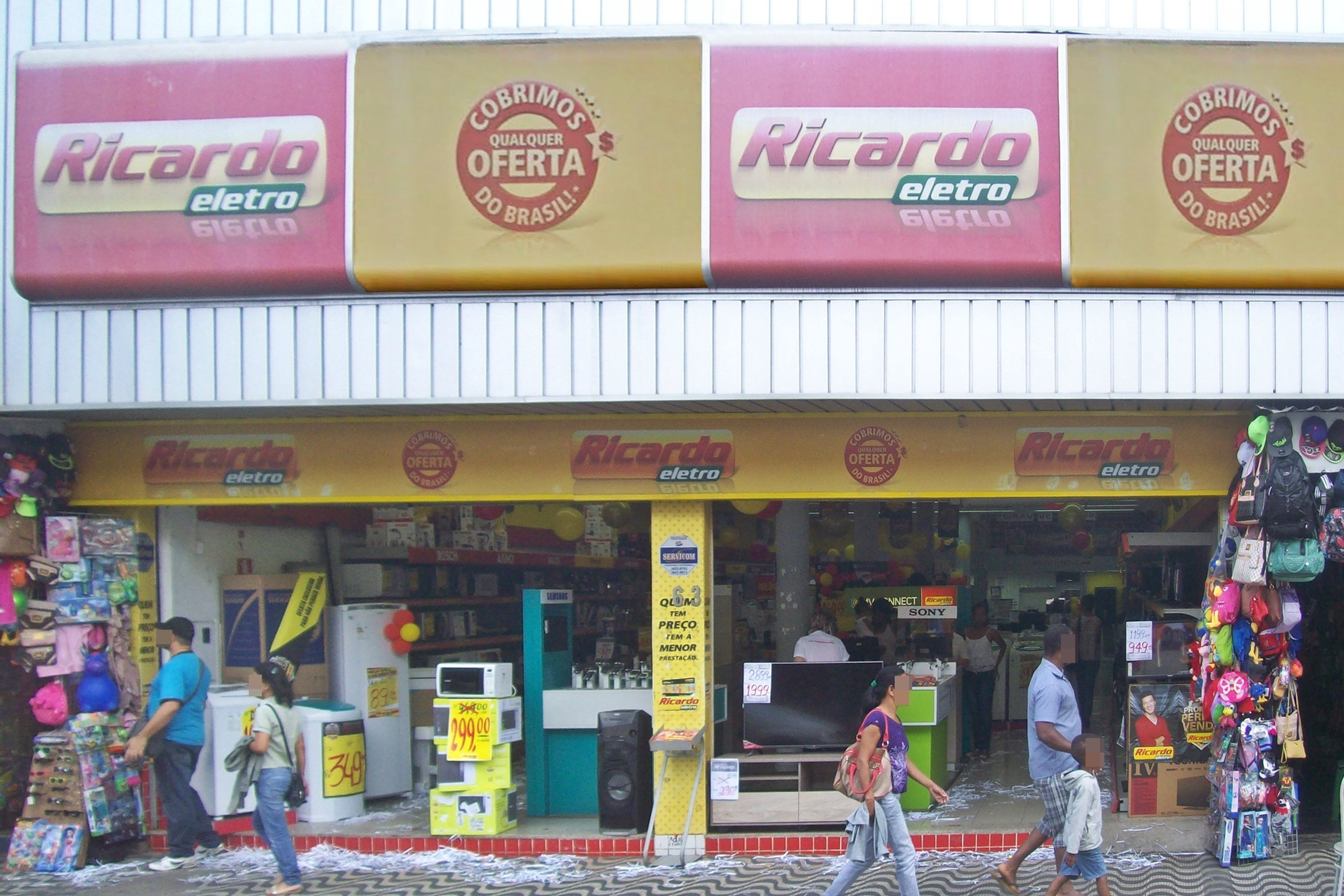 Lojas Ricardo Eletro in Coronel Fabriciano, Minas Gerais, Brazil